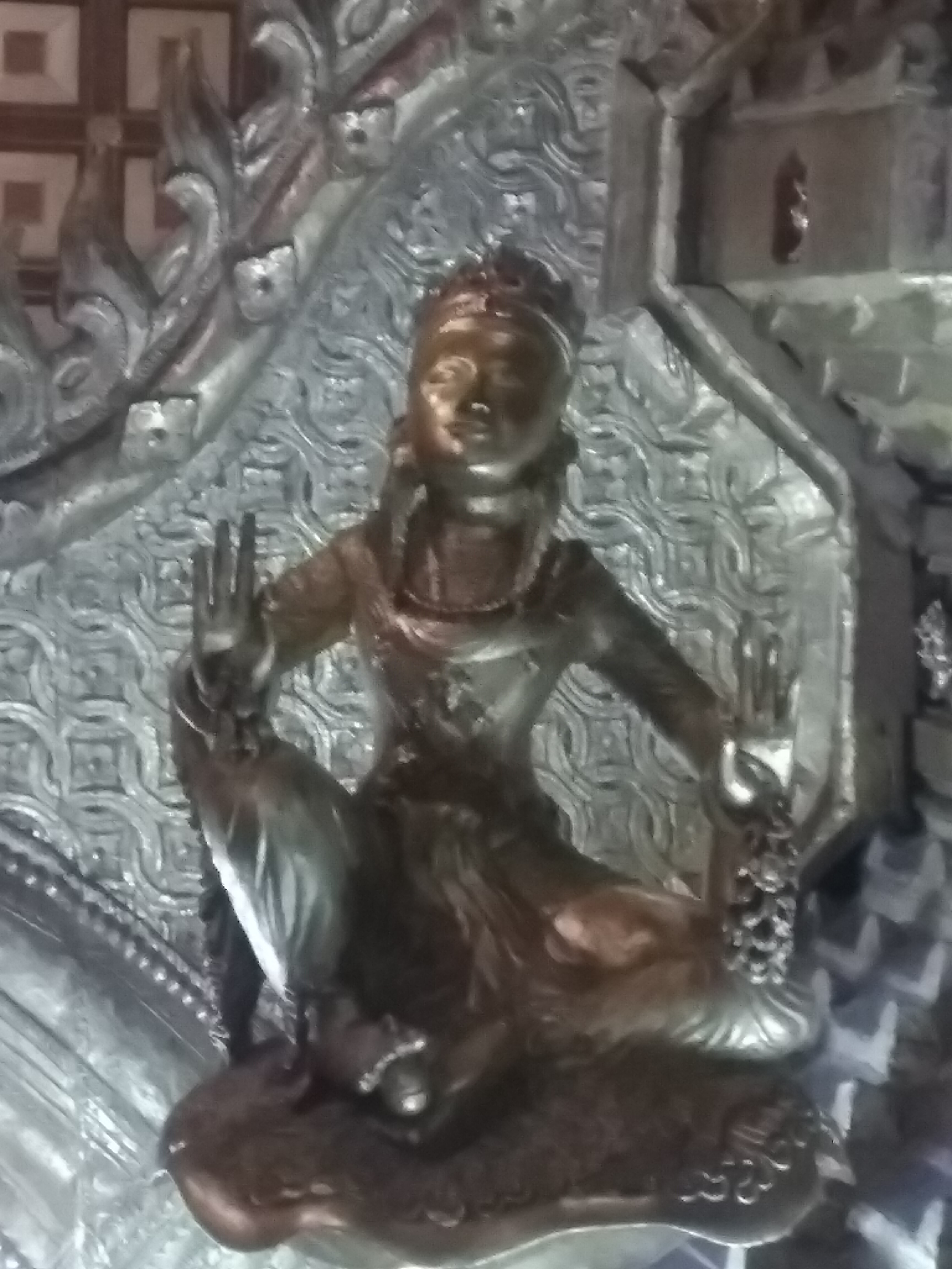 A statue of Lokanat which symbolizes peace.